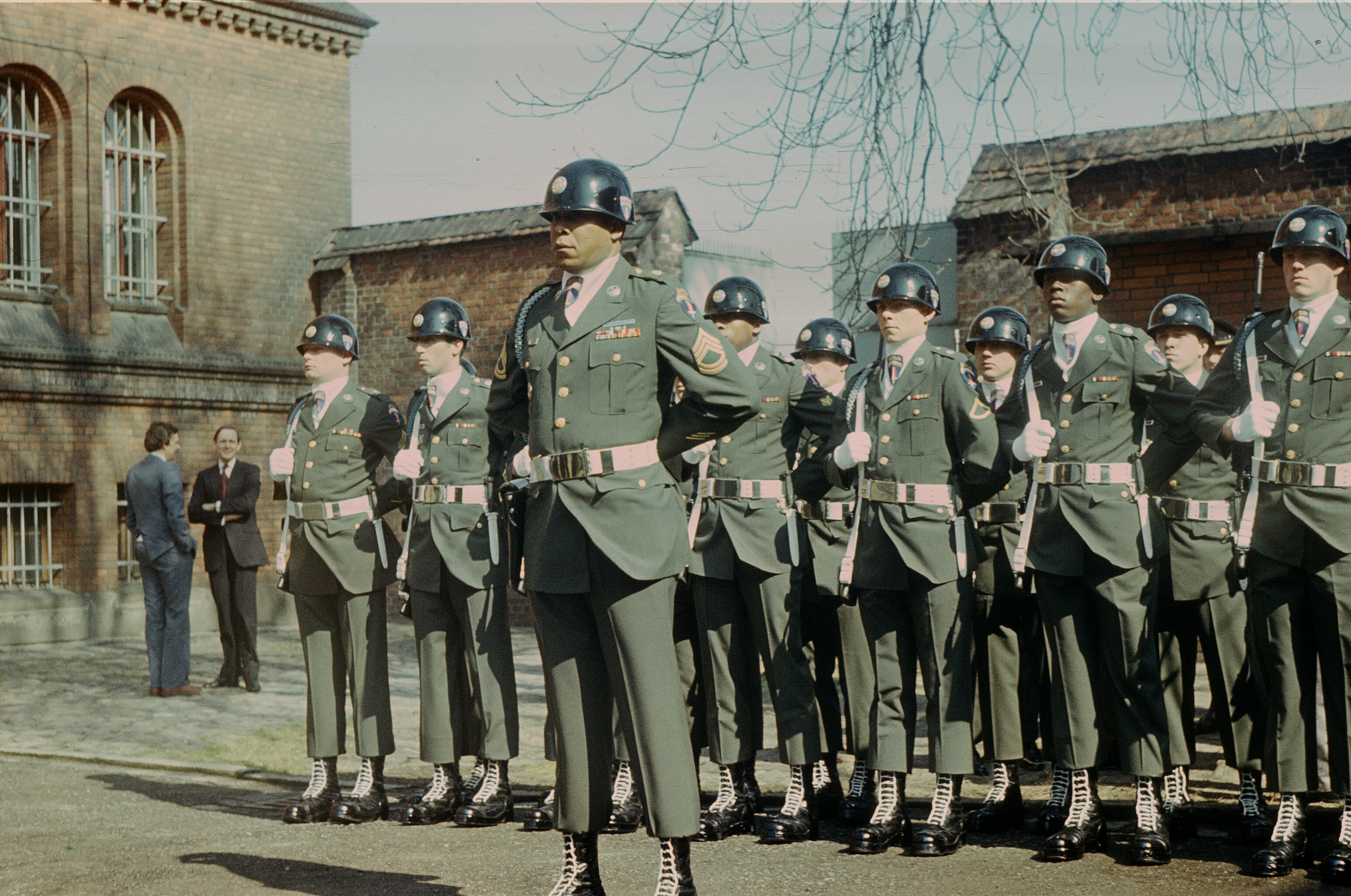 Berlin Brigade. Spandau Prison. 1.4.1983.